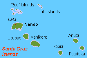 Map (rough) of the Santa Cruz islands, Solomon Islands, own work composed from various mapreferences